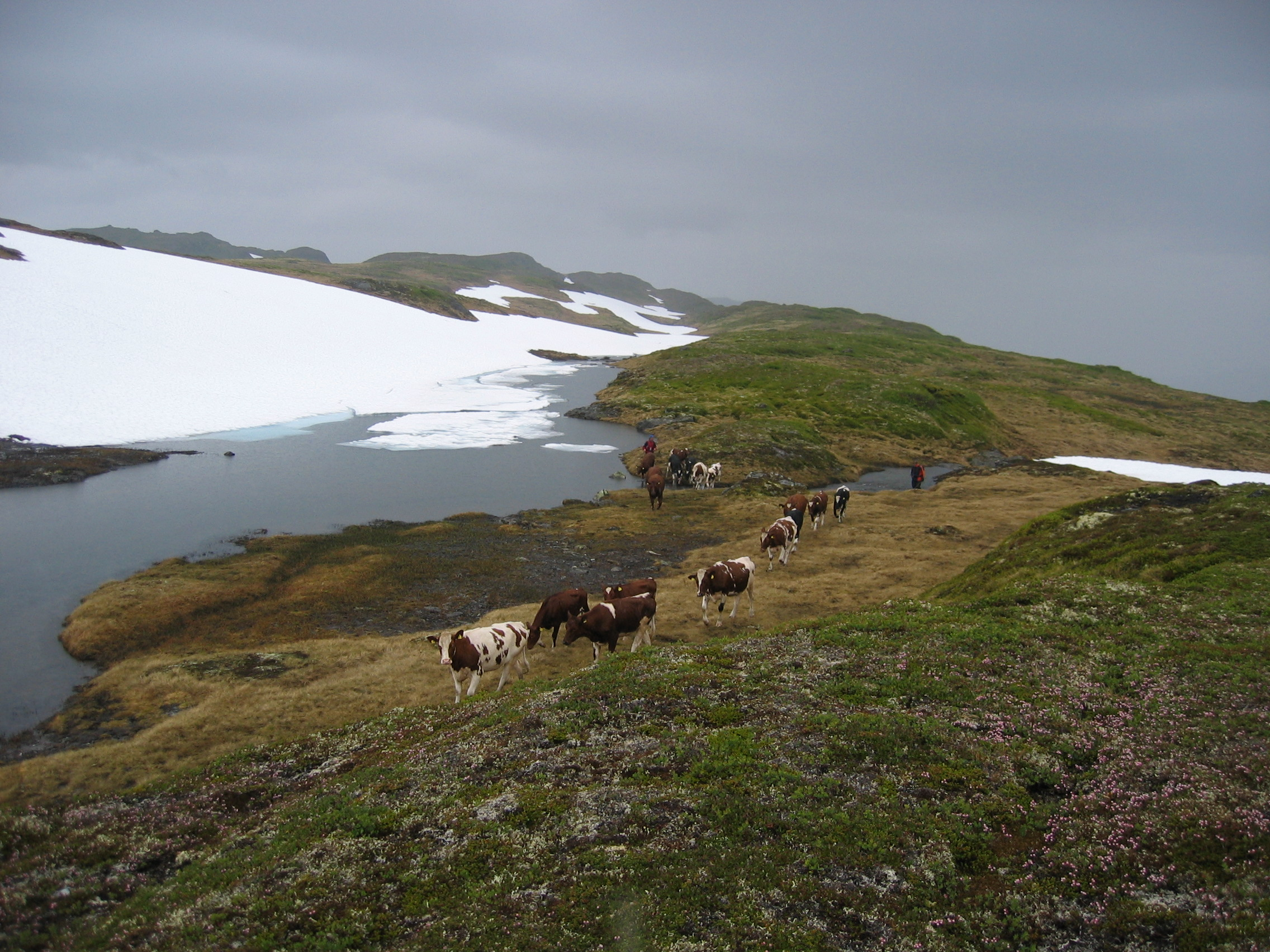 Transhumance in Norway. Moving cows to mountain pastures.